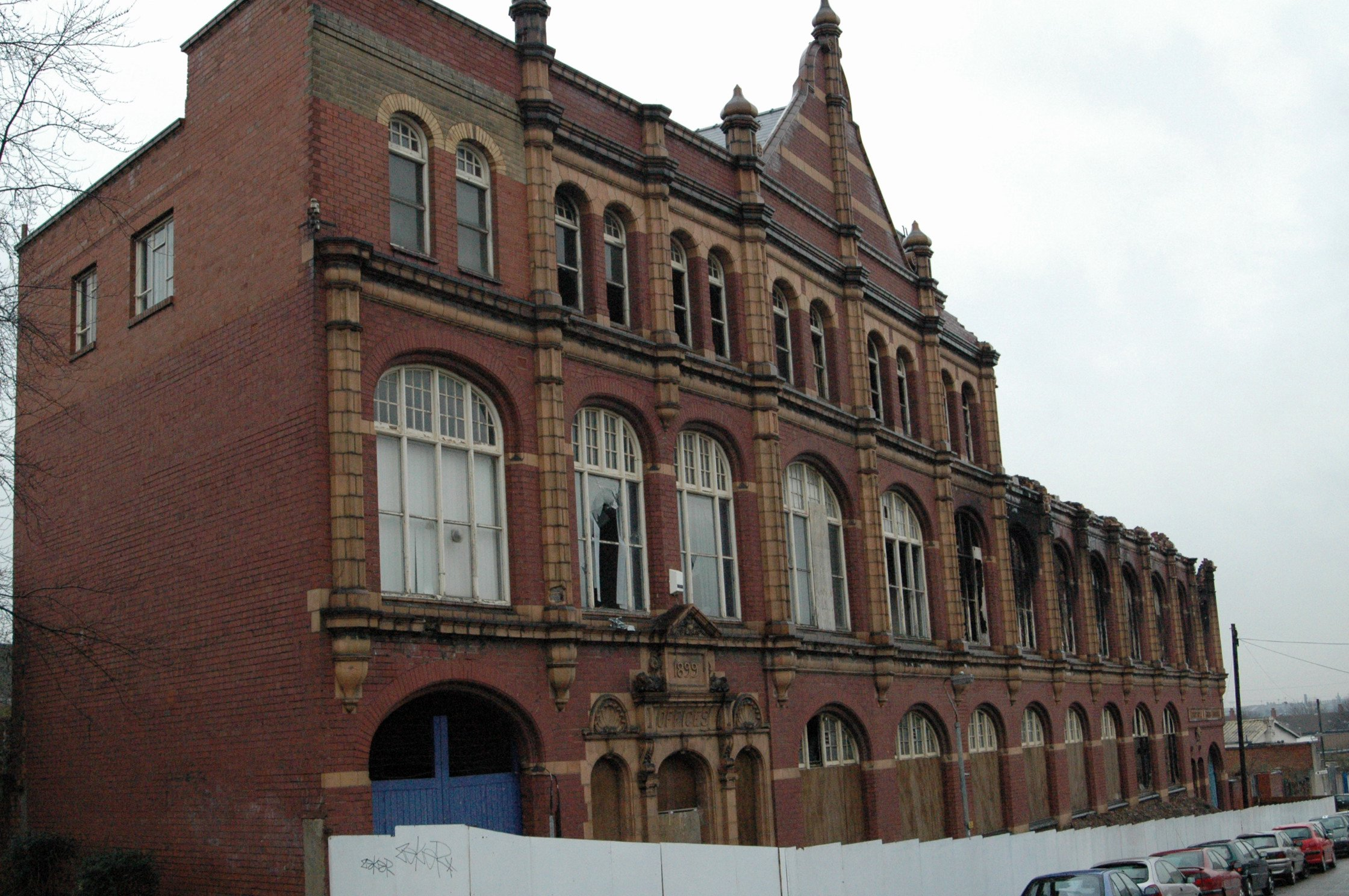 The Belmont Row/ AB Row factory building after being destroyed by fire and strong winds, Birmingham, England, UK.